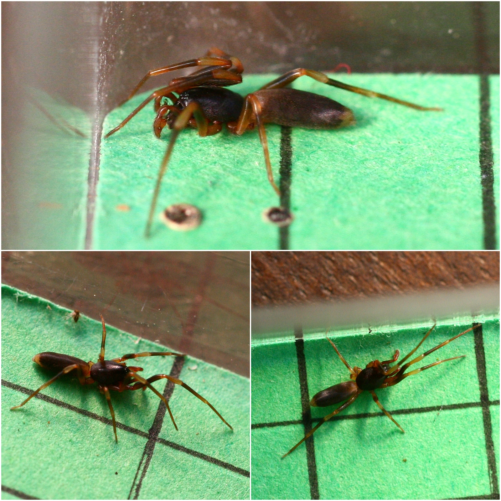 Harpactea hombergi (Dysderidae) male. Bricket Wood Common, Hertfordshire, 03.06.2010.